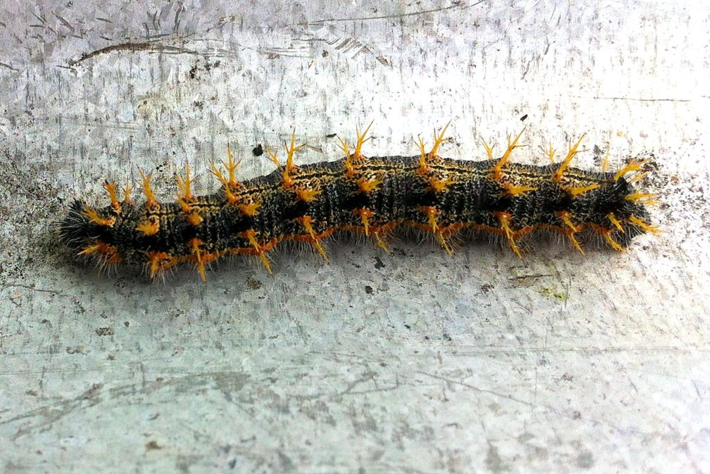 Nymphalis polychloros caterpillar